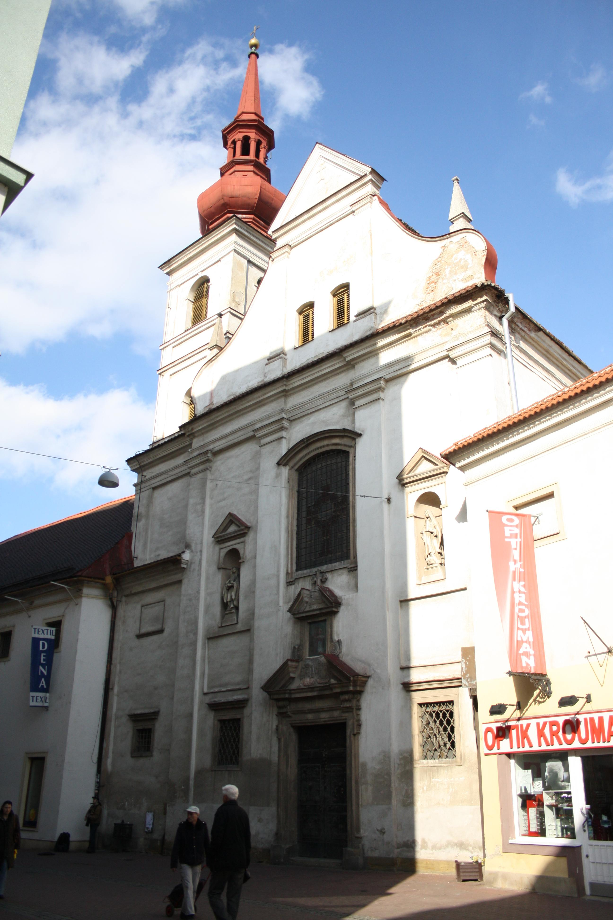 Overview of Saint Joseph church in Brno-Center.